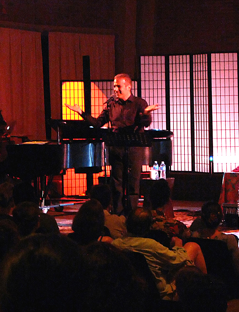 An image of Shahram Shiva on stage